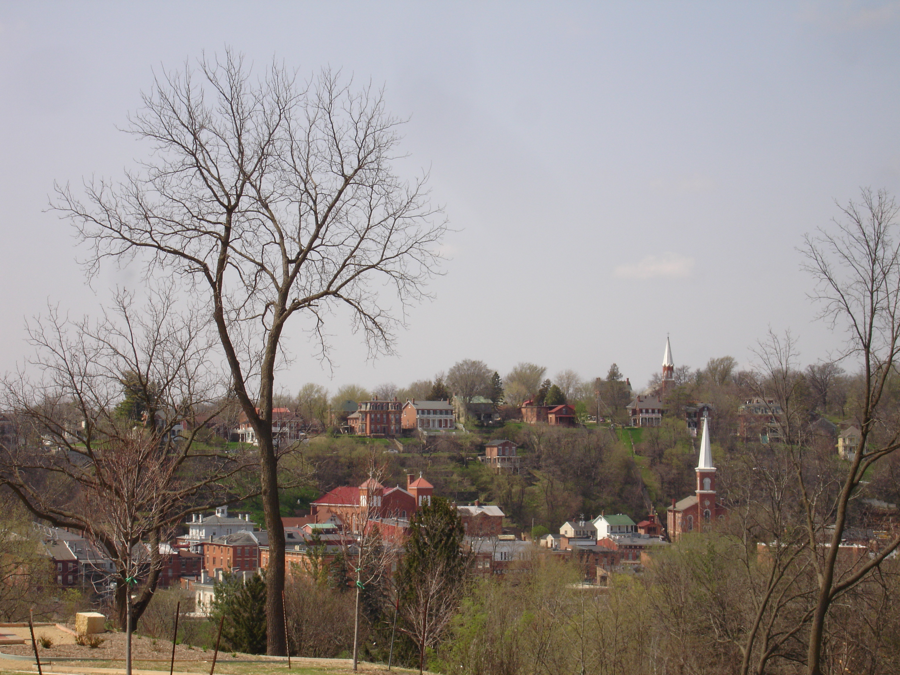 View of Galena Historic District from the Ulysses S. Grant Home, downtown Galena, Illinois, USA. U.S. National Register of Historic Places.